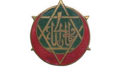 Regimental badge of the 4th Rifle Regiment Tunisians (France).